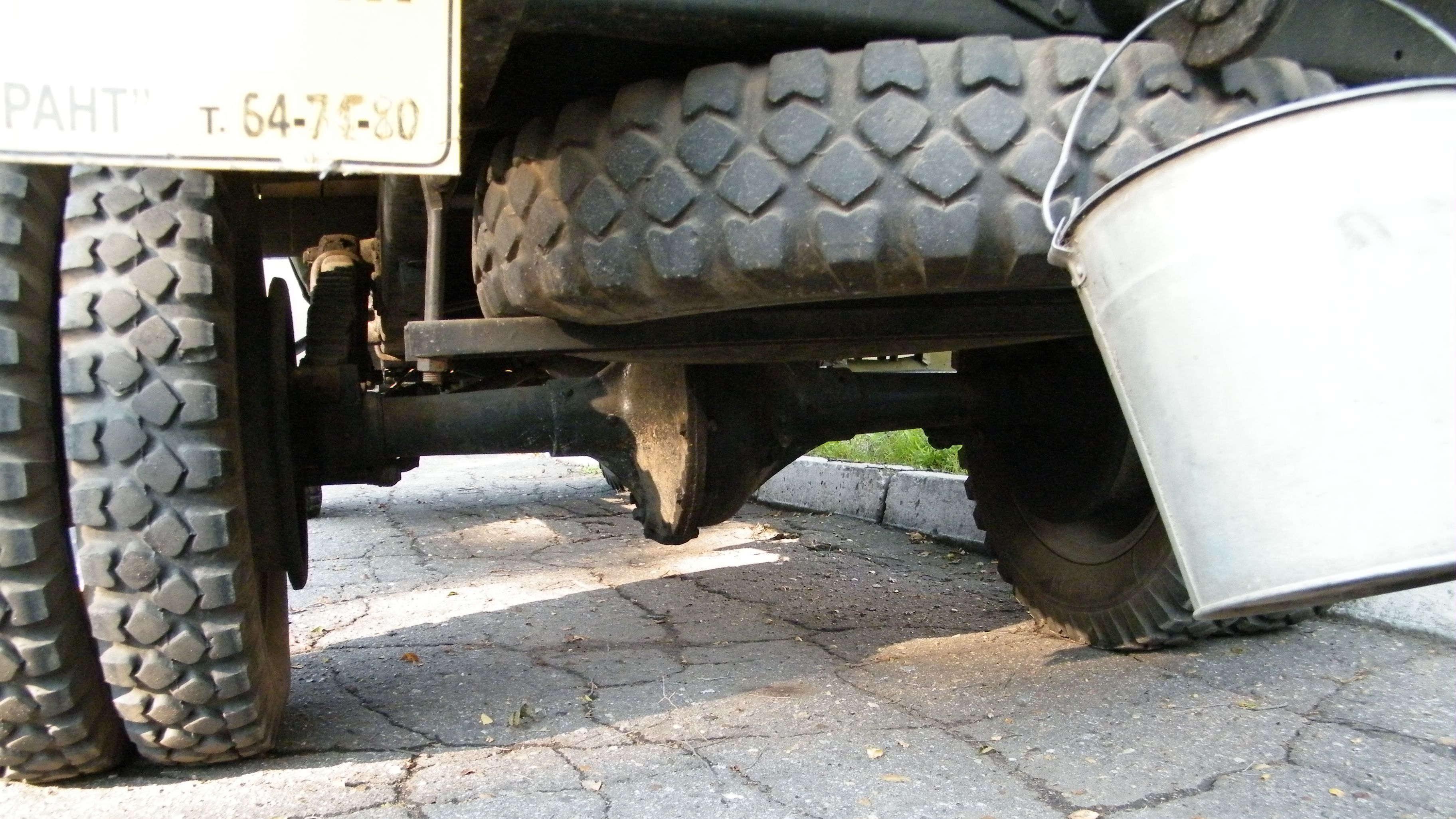 GAZ-MM